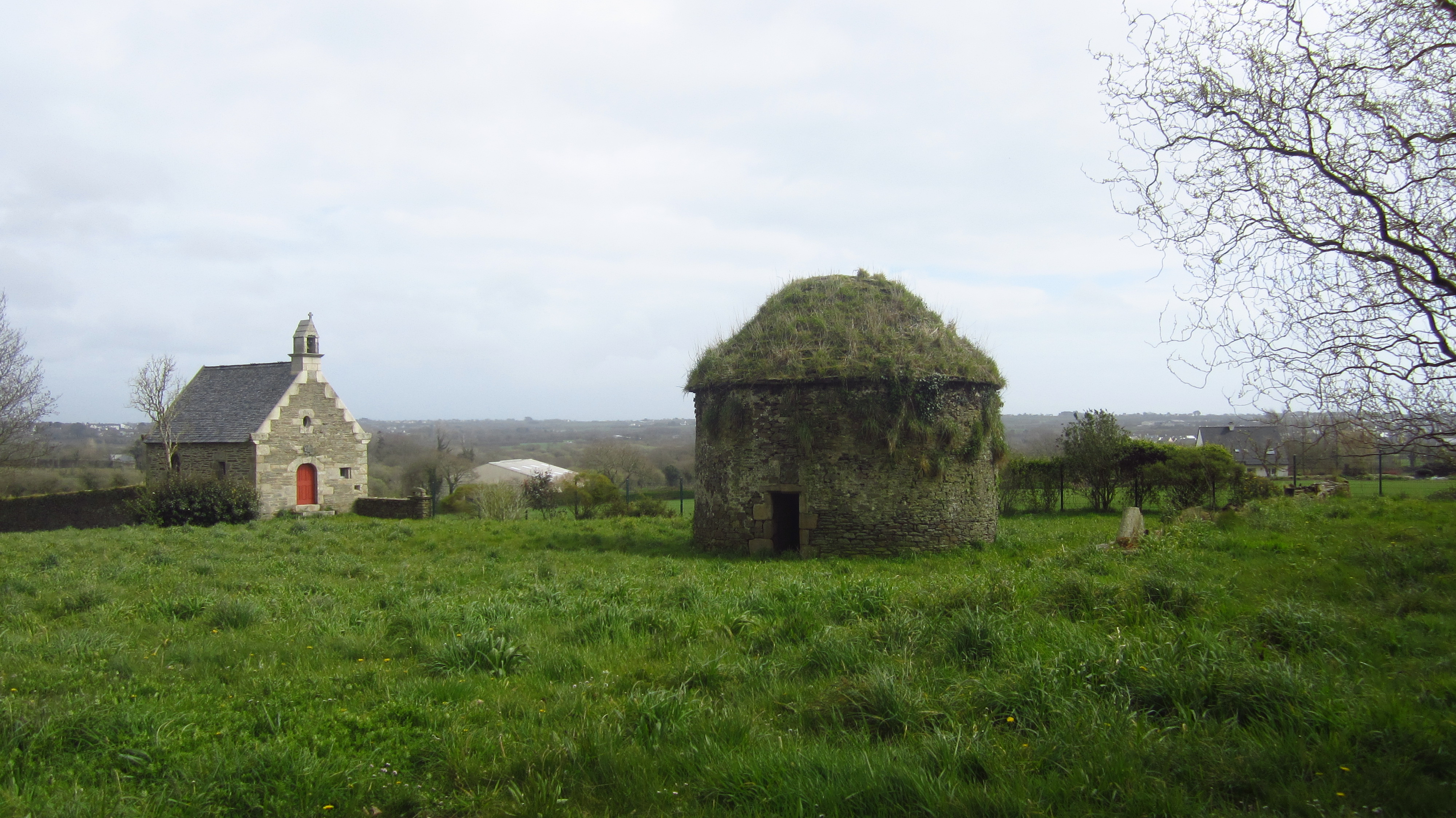 Manor house of Kerscao, Locmaria-Plouzané